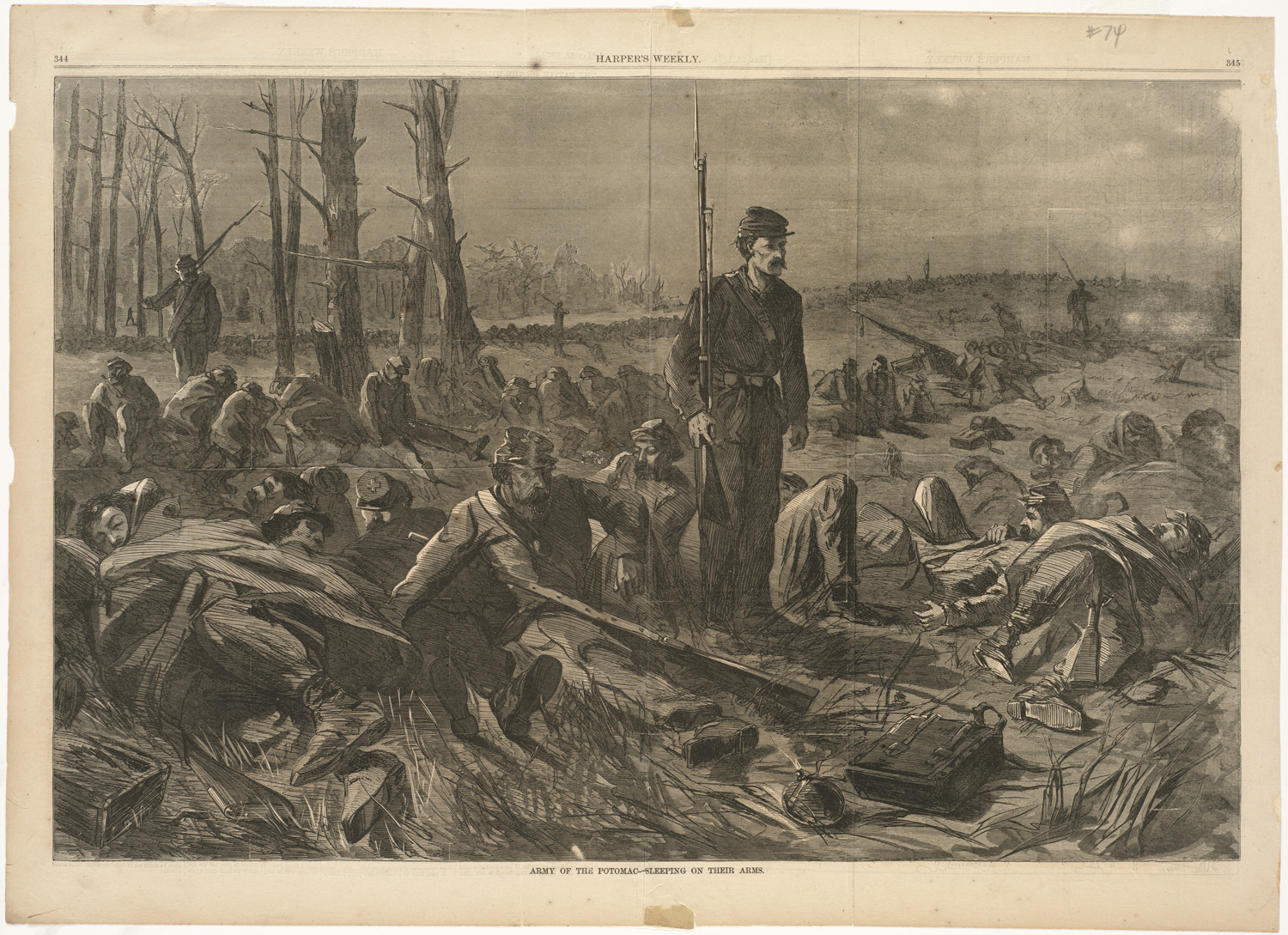 File name: 10_09_000074 Title: Army of the Potomac -- Sleeping on their arms Creator/Contributor: Homer, Winslow, 1836-1910 (artist) Date issued: 1864-05-28 Physical description: 1 print : wood engraving Genre: Wood engravings; Periodical illustrations Notes: Published in: Harper's Weekly, Volume VIII, 28 May 1864, pp. 344-345. Collection: Winslow Homer Collection Location: Boston Public Library, Print Department Rights: No known restrictions Flickr data on 2011-08-11: Camera: Sinar AG Sinarback 54 FW, Sinar m Tags: Winslow Homer User: Boston Public Library BPL